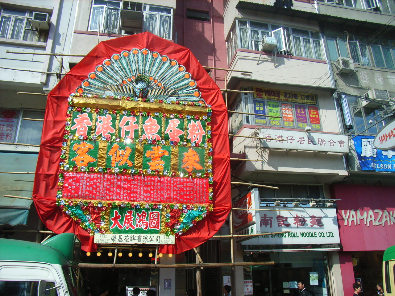 香港島南區